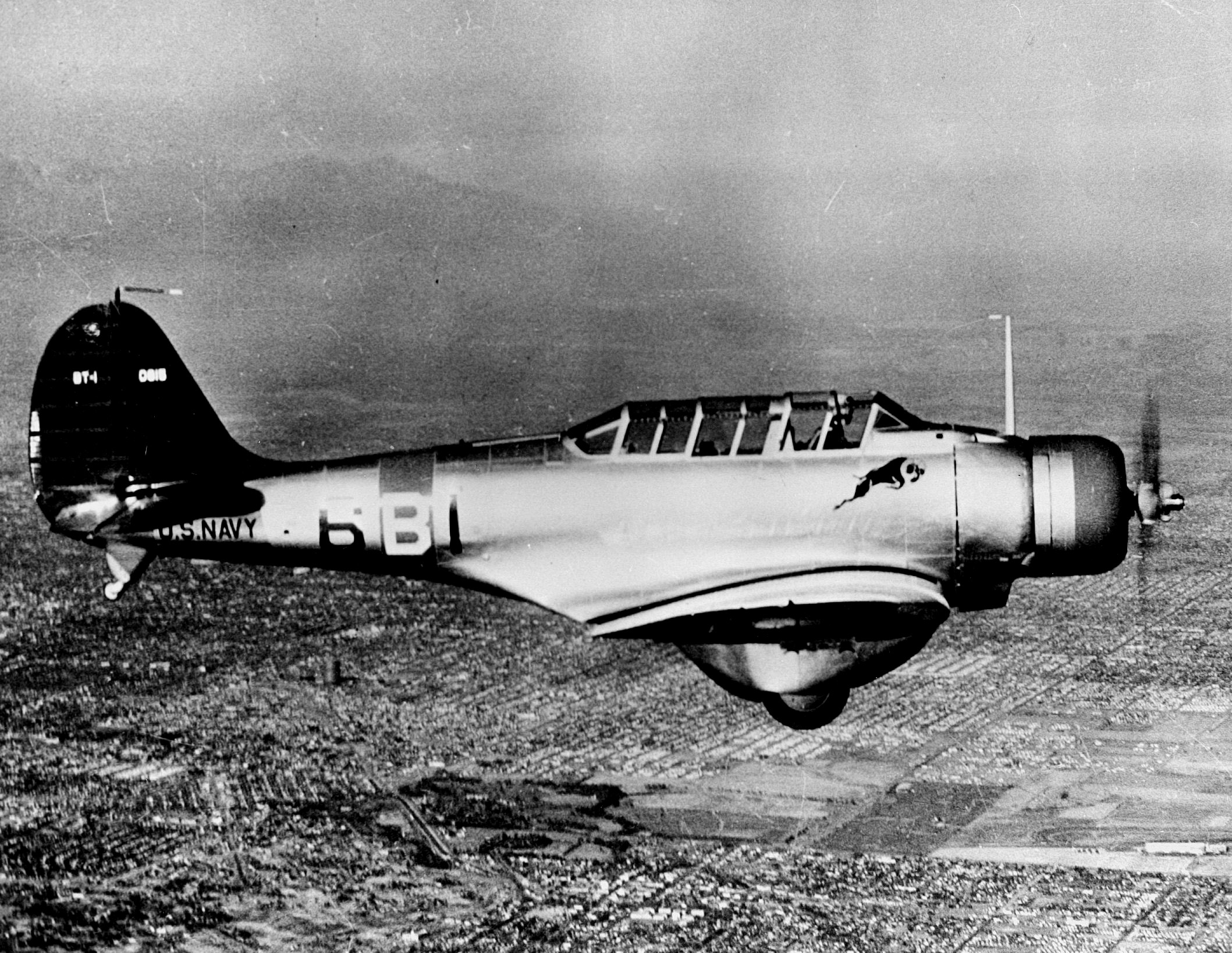 A U.S. Navy Northrop BT-1 (BuNo.0815) of dive bombing squadron VB-6, circa 1939/40.